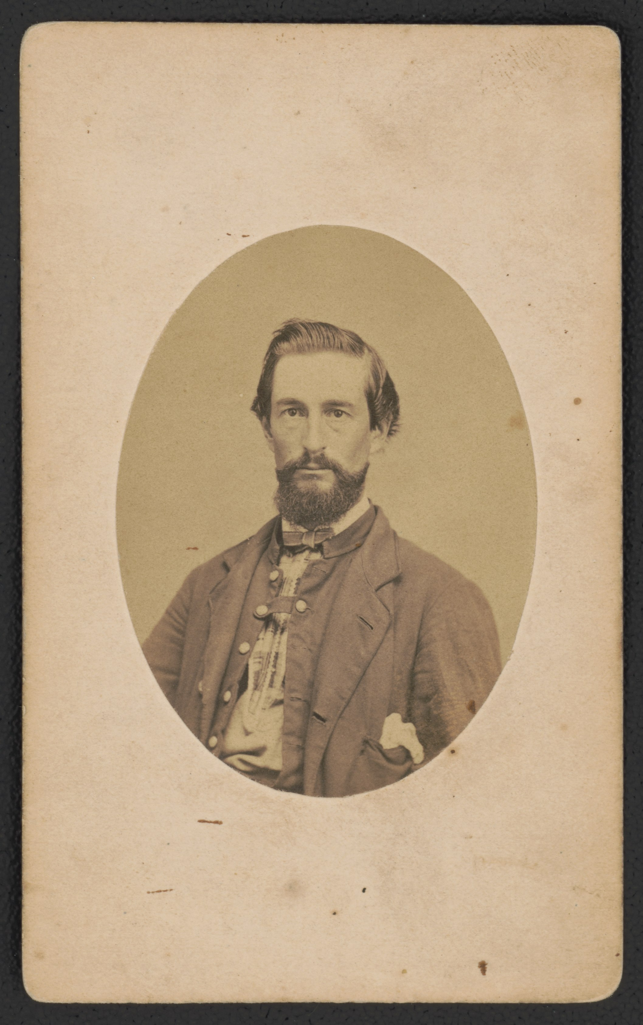 Title: Wagoner John M. Moore of Co. K, 4th Illinois Cavalry Regiment, in uniform] / Hughes & Lakin, photographers, Natchez, Miss Abstract/medium: 1 photograph : albumen print on card mount ; mount 11 x 6 cm (carte de visite format)